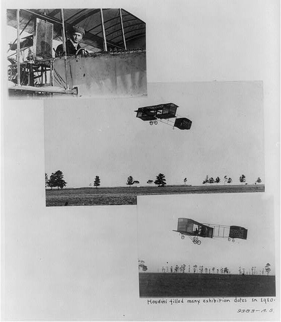 Voisin biplane used by Harry Houdini (1874-03-24 – 1926-10-31) Scenes of Harry Houdini as aviator; close-up in Voisin biplane cockpit (1910?)